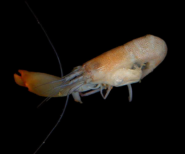 The snapping shrimp (Synalpheus fritzmuelleri), commonly found in hard-bottom sponges. Note the parasitic isopod attached to the carapace.